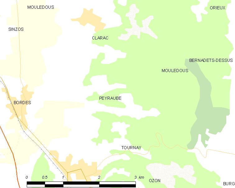 Map of French municipality